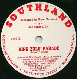 Southland Record label, for Southland Records article.